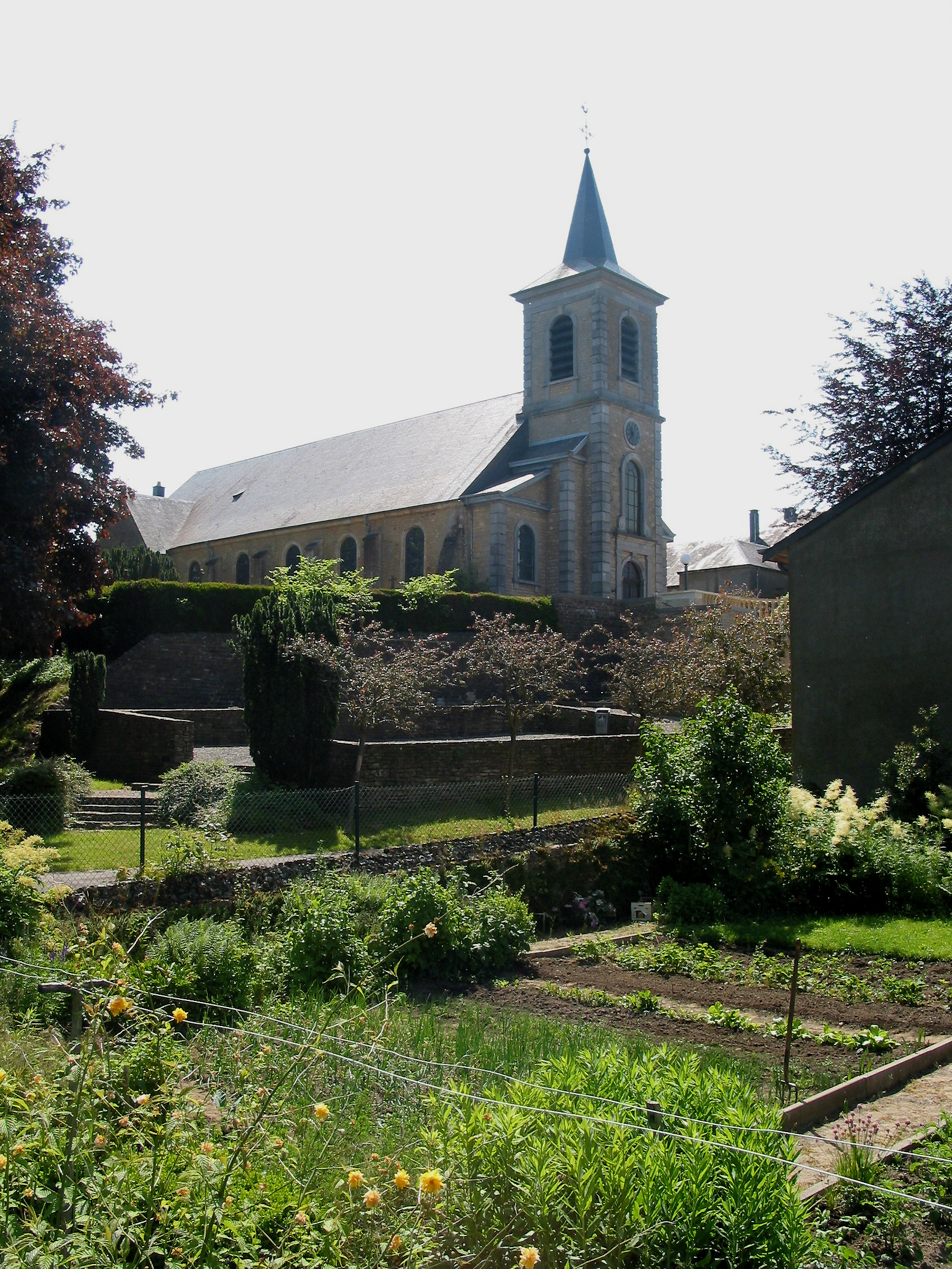 Tintigny (Belgium), Our Lady of the Assumption church's (17th century).